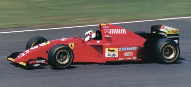 Jean Alesi driving for Scuderia Ferrari at the 1995 British Grand Prix.